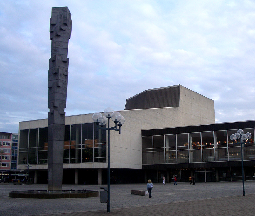 Ludwigshafen, Germany: Pfalzbau theatre and Pfalzsäule column